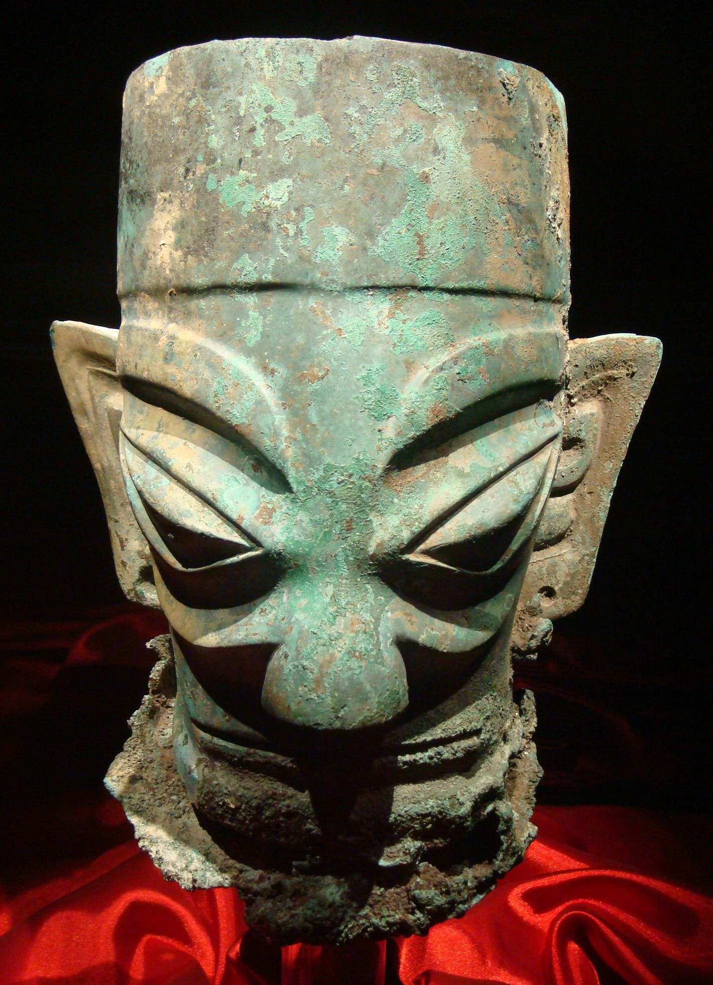 Bronze head from the thirteenth or twelfth century BCE, excavated in 1986 from Sanxingdui Pit 1 near Chengdu in Sichuan province, China. Height 27 cm, greatest width 22.8 cm, width at top of head 15 cm, weight 7.66 kg. Kept at the Sanxingdui Museum. The description is from Jay Xu (2001), "Bronze at Sanxingdui," in Robert Bagley (ed.), Ancient Sichuan: Treasures from a Lost Civilization (Seattle: Seattle Art Museum; Princeton, NJ: Princeton University Press), p. 85.